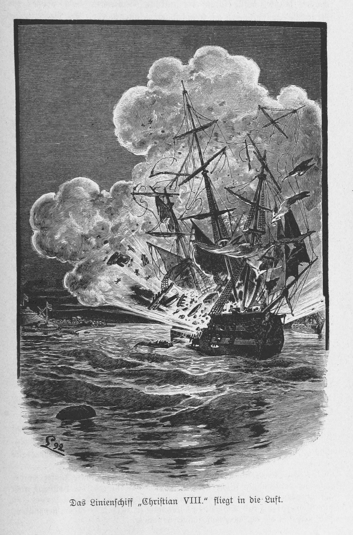 Image extracted from page 535 of Die deutsche Revolution. Geschichte der deutschen Bewegung von 1848 und 1849 ... Illustrirt, etc', by BLOS, Wilhelm. Original held and digitised by the British Library. Copied from Flickr. Note: The colours, contrast and appearance of these illustrations are unlikely to be true to life. They are derived from scanned images that have been enhanced for machine interpretation and have been altered from their originals.